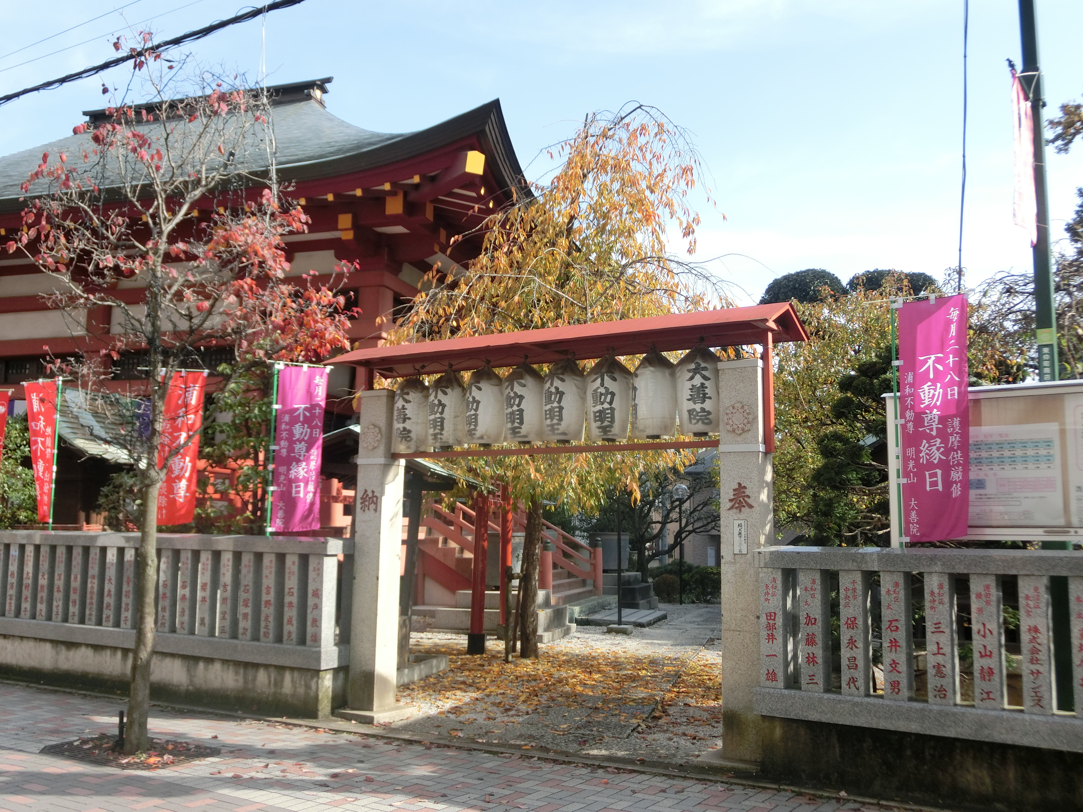 Daizen-in (Saitama)